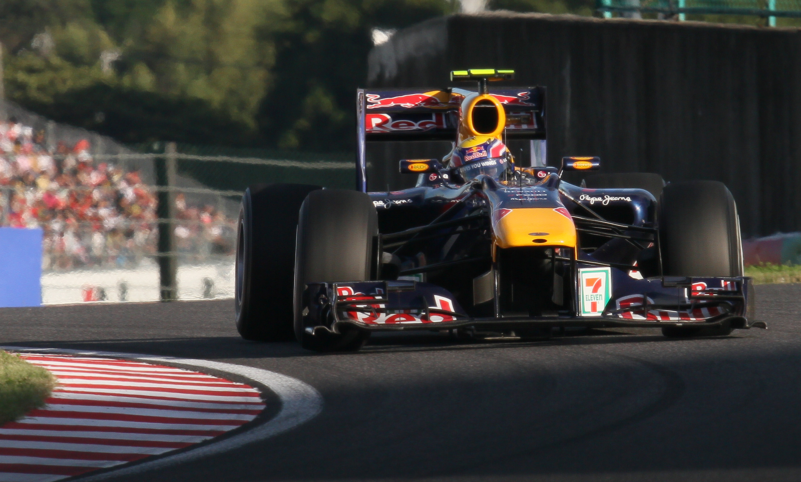 Formula One 2010 Rd.16 Japanese GP: Mark Webber (Red Bull) during the race.